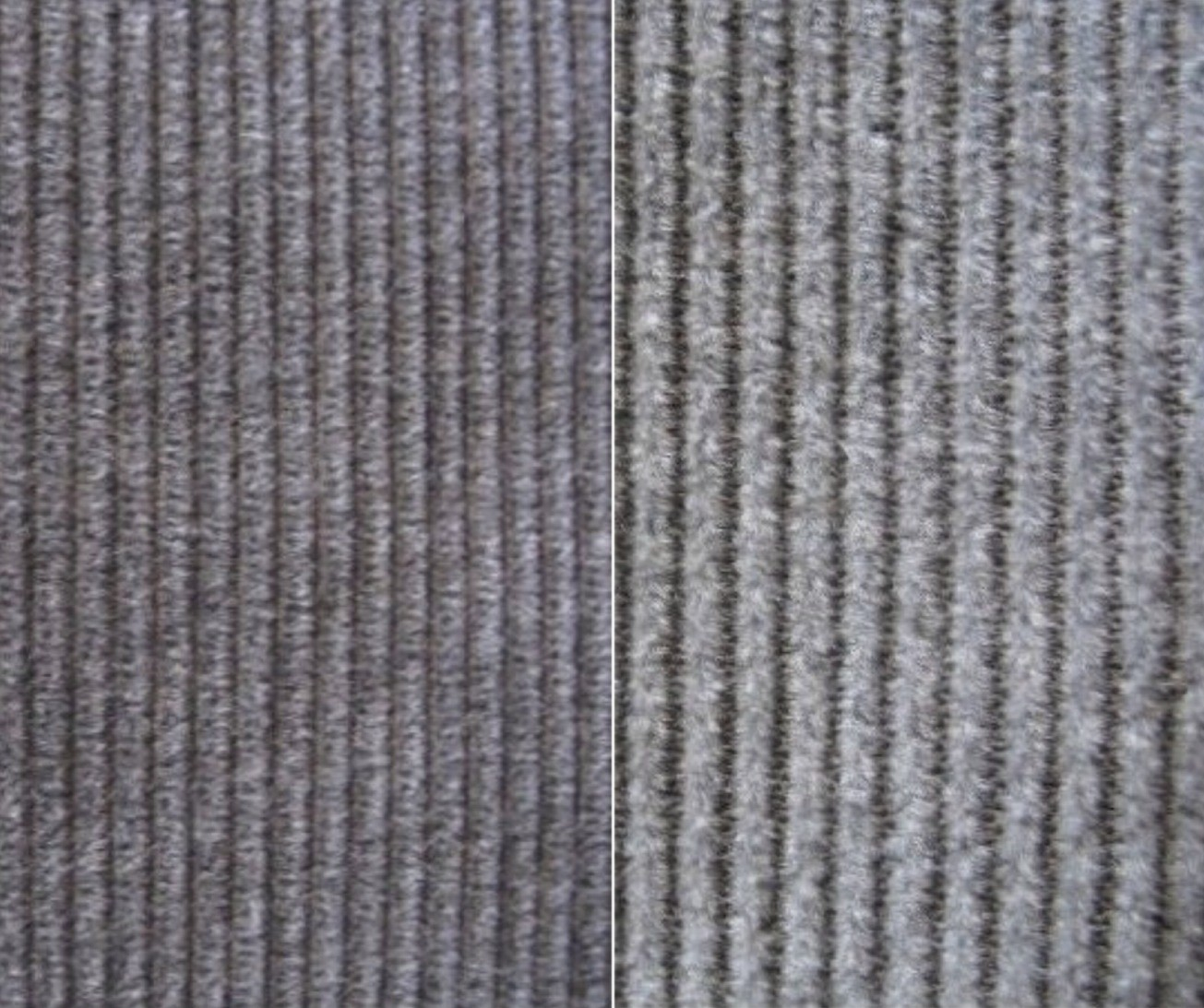 Cord (Manchester)